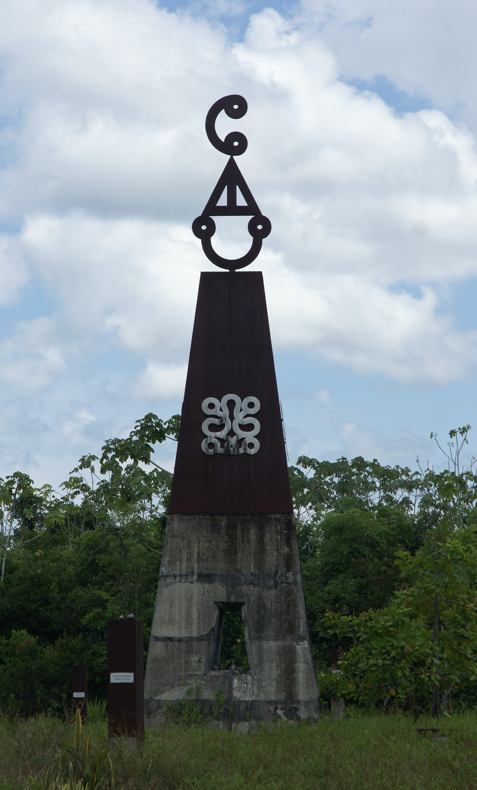 Moiwana Monument, Moiwana, Surinam. Central pillar, symbolizing Kibi, the protector.